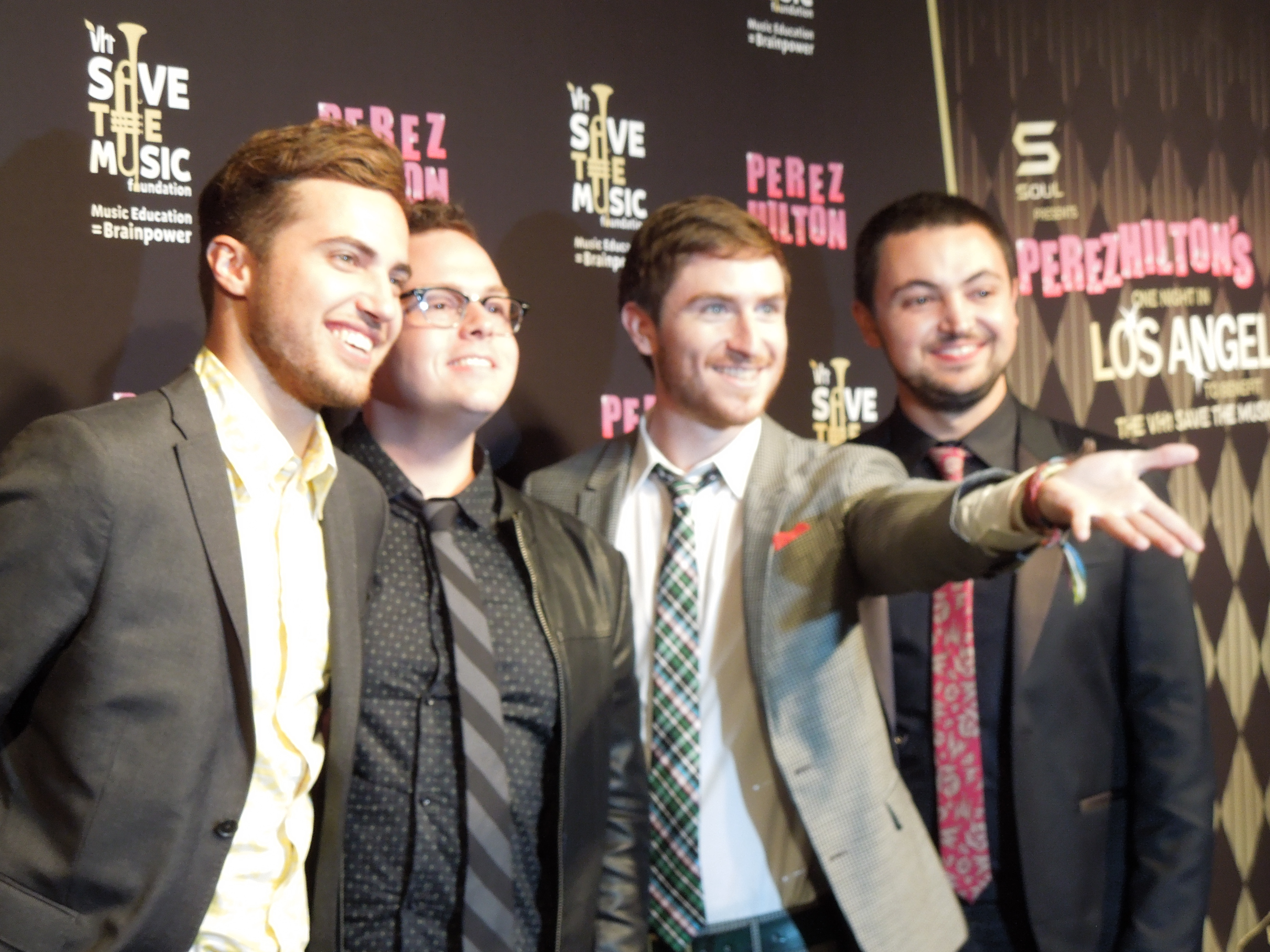 Members of alternative band Walk The Moon smile for the cameras. (Sarah Mickelson/Neon Tommy)